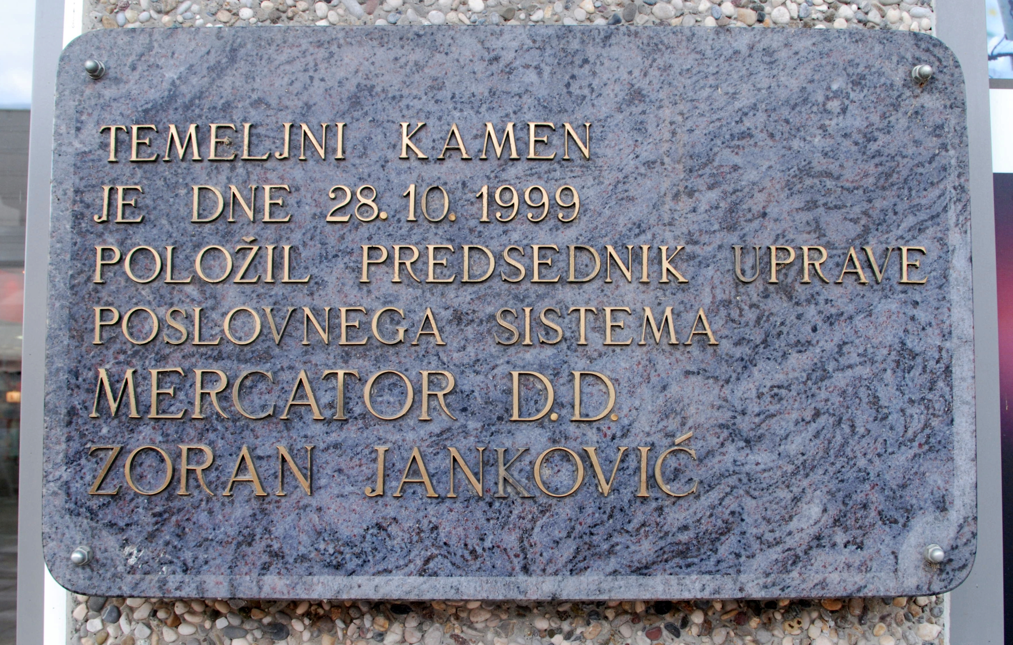 The plaque next to the entrance of the Mercator shopping centre in Brežice: "The foundation stone was laid on 28 October 1999 by Zoran Janković, the president of the management board of Poslovni sistem Mercator (Mercator Business System) d.d.".